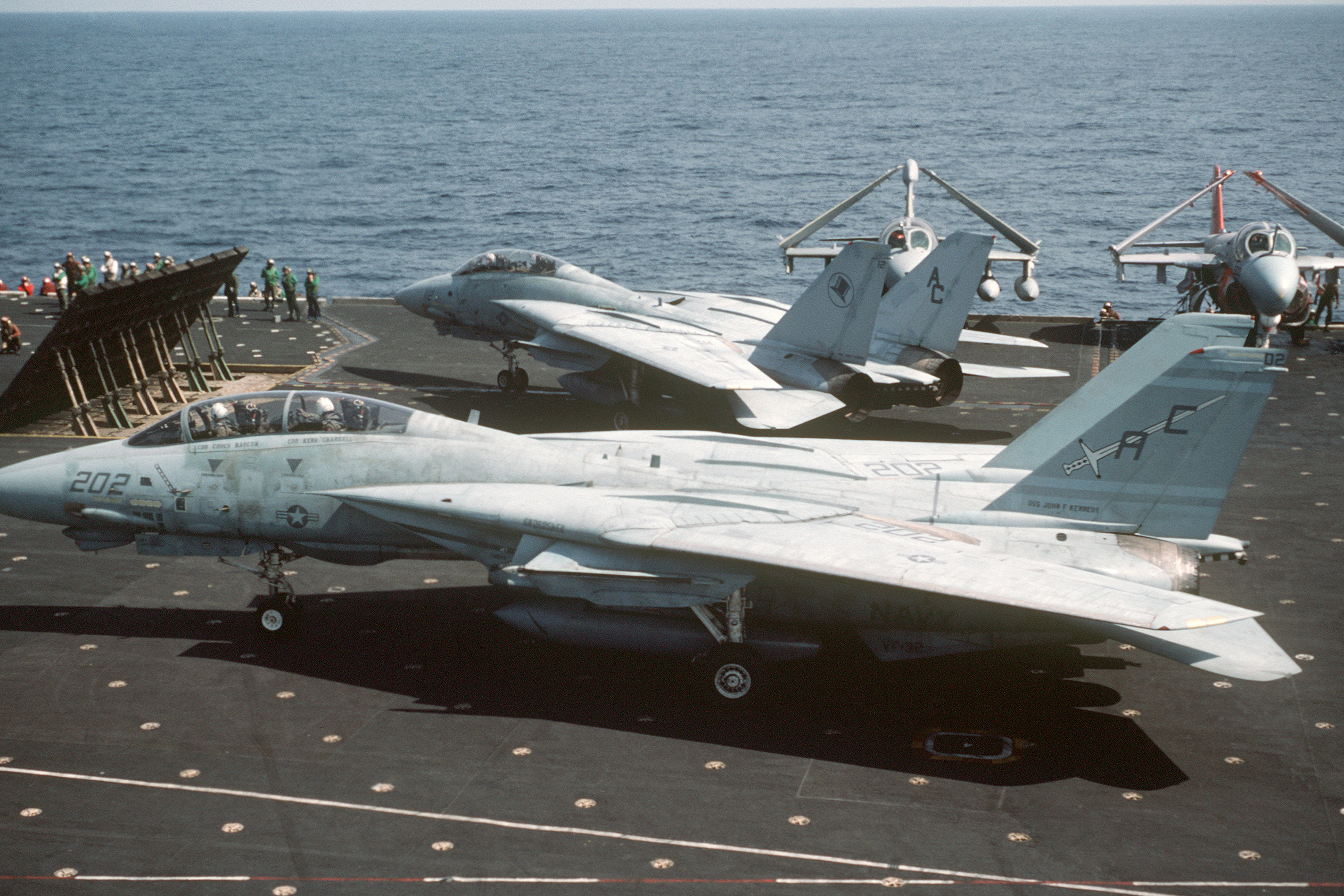 Two U.S. Navy Grumman F-14A Tomcat aircraft taxi on the flight deck behind a jet blast deflector during flight operations aboard the aircraft carrier USS John F. Kennedy (CV-67). The aircraft in the foreground is from Fighter Squadron 32 (VF-32) and the aircraft in the background is from Fighter Squadron 14 (VF-14).